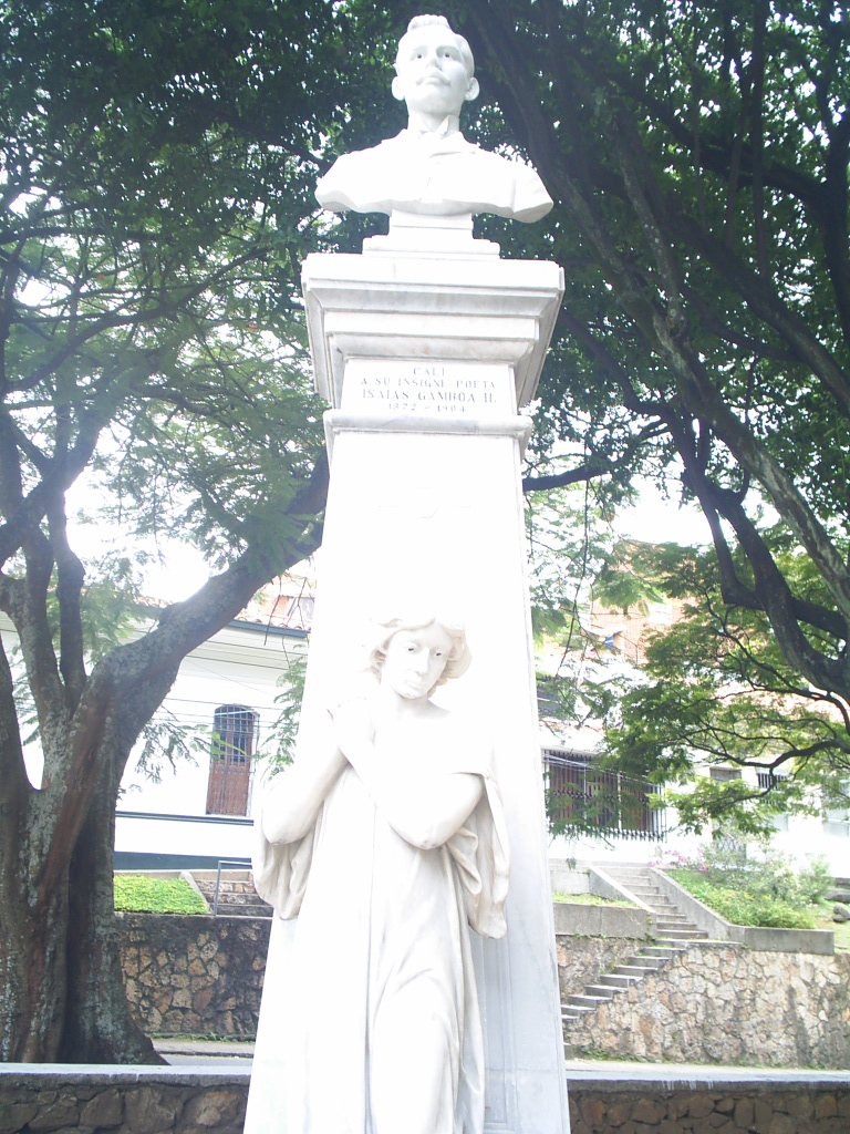 Isaias Gamboa Bust